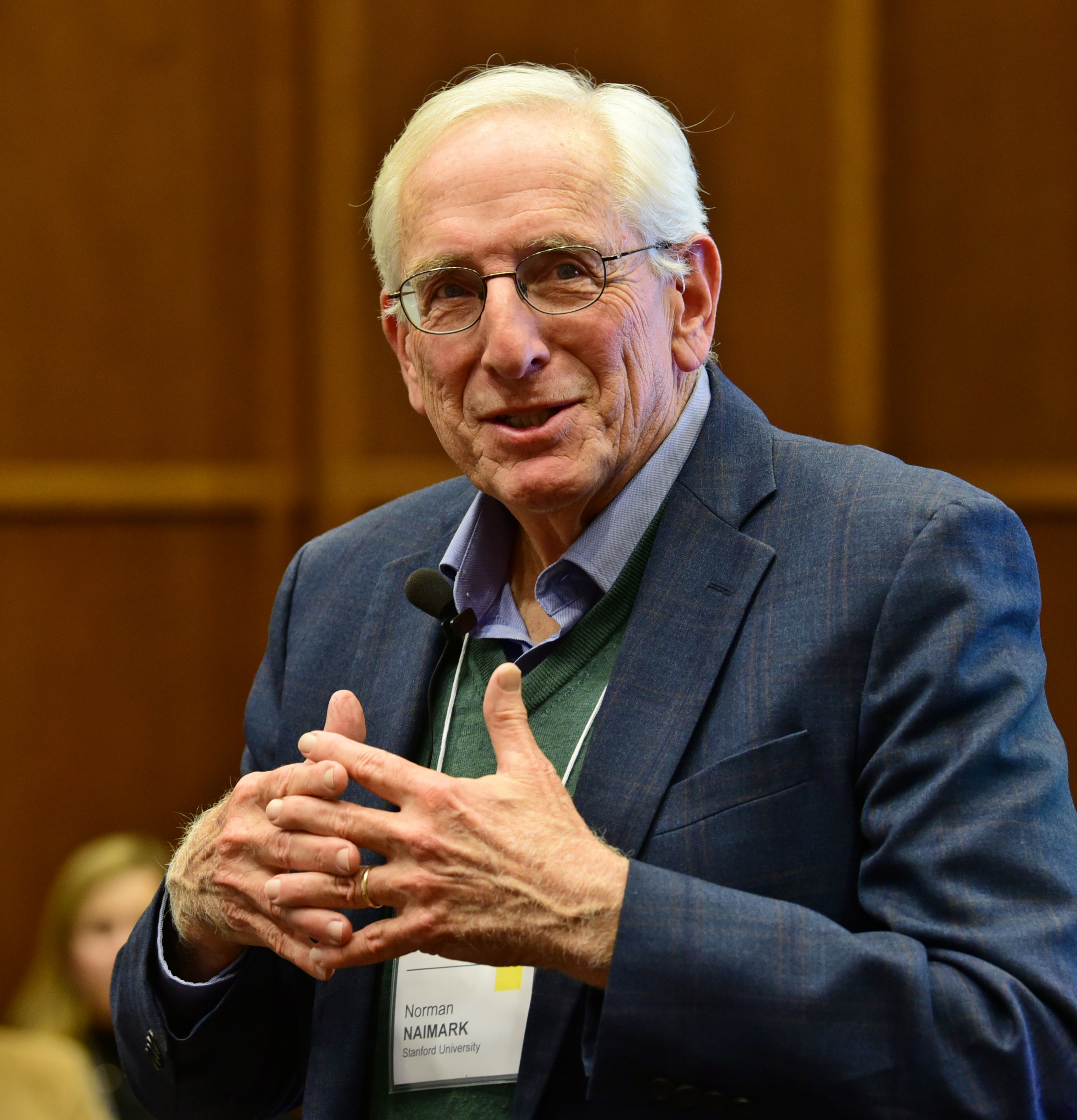 Prof Norman Naimark at the conference in the University of Toronto, Munk School of Global Affairs, 2018